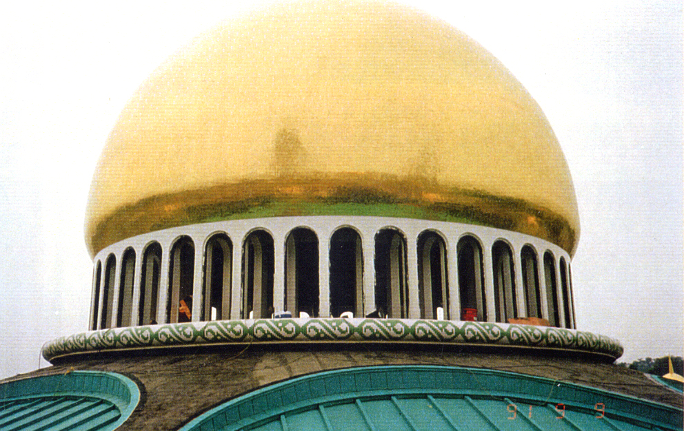 The Brunei Sultan Palace dome — in gold mosaics from Emaux de Briare. The decors were made by Emaux de Briare, France.